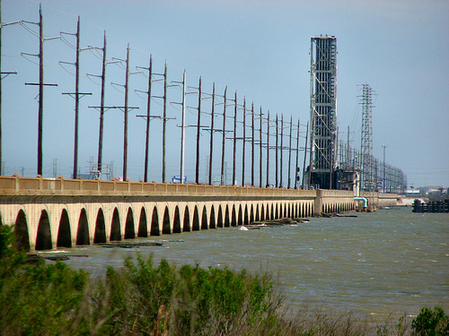 1912 Galveston Causeway & Railroad Bridge. In this photo, the bridge's single-leaf bascule-type lift span is in the raised position. The bascule span was replaced in 2012 by a vertical-lift span.